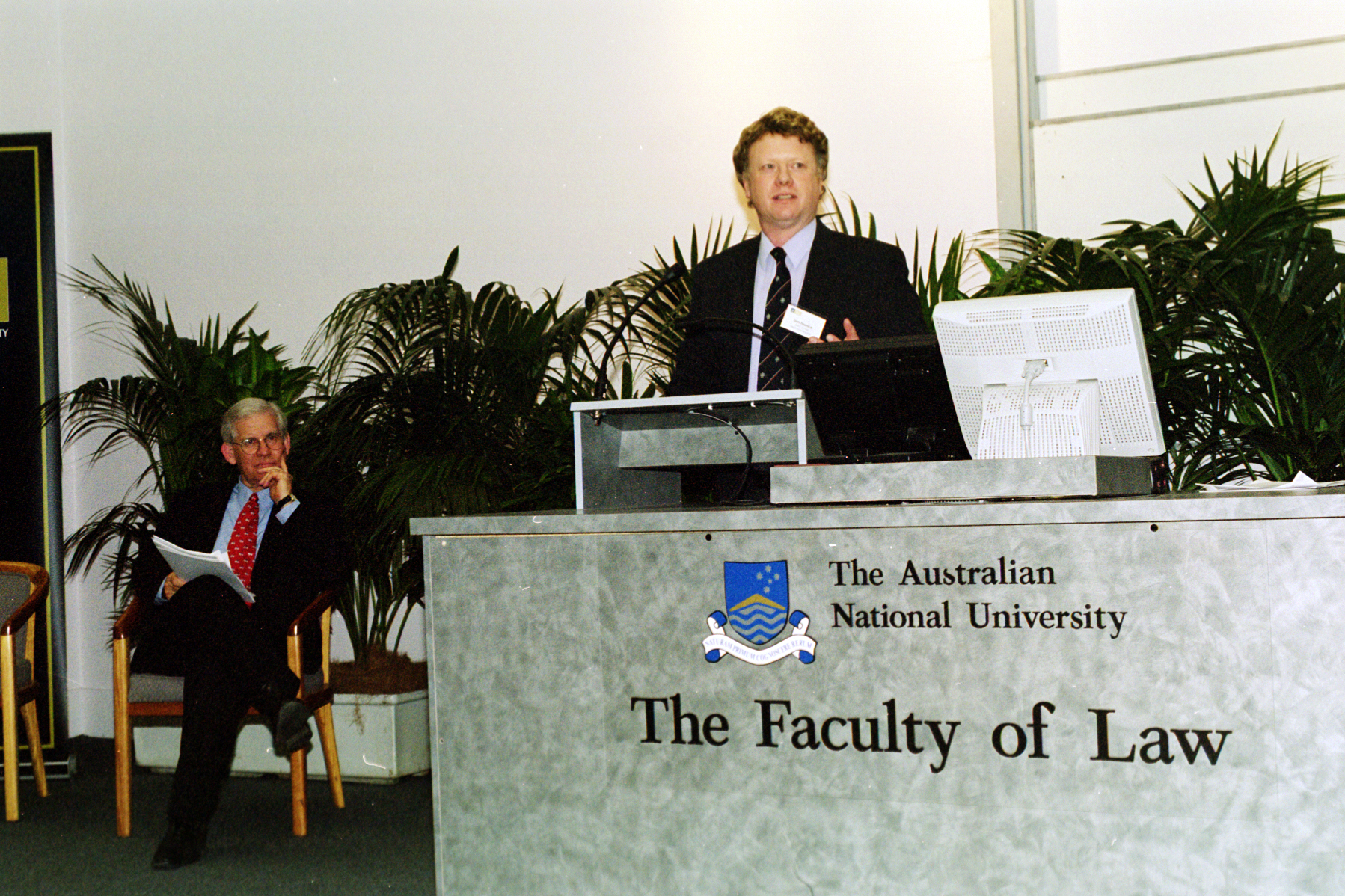 Assoc Prof Thomas Faunce speaking at Australian National University College of Law